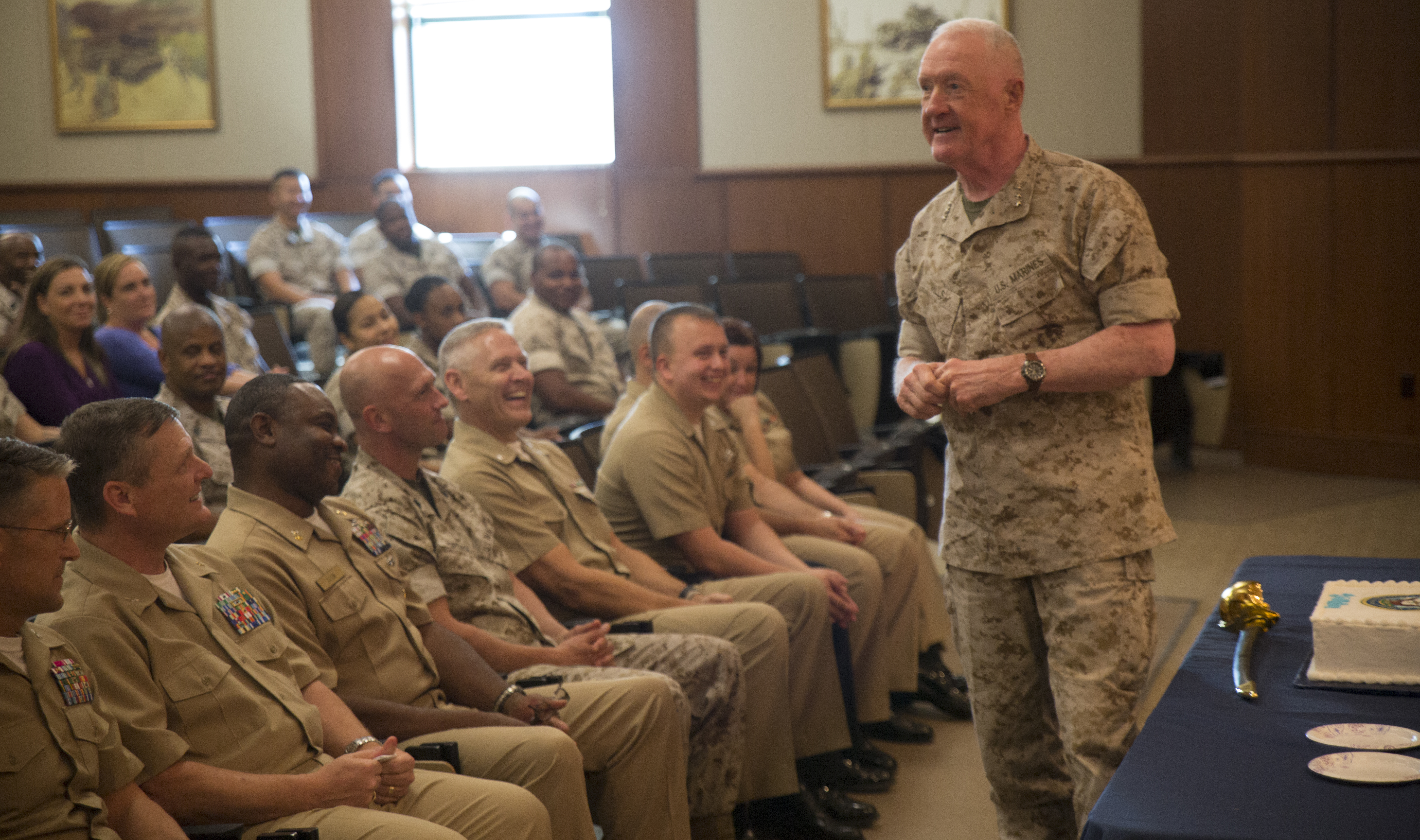 New orleans, LA - Lt. Gen. Richard P. Mills, commander of Marine Forces Reserve, addresses Marines and Sailors during the Navy’s birthday celebration ceremony at Marine Corps Support Facility New Orleans, Oct. 15, 2014. The United States Navy celebrated its 239th birthday with the traditional bell ringing and cake cutting ceremony. Photo by: LCpl Ian Ferro.